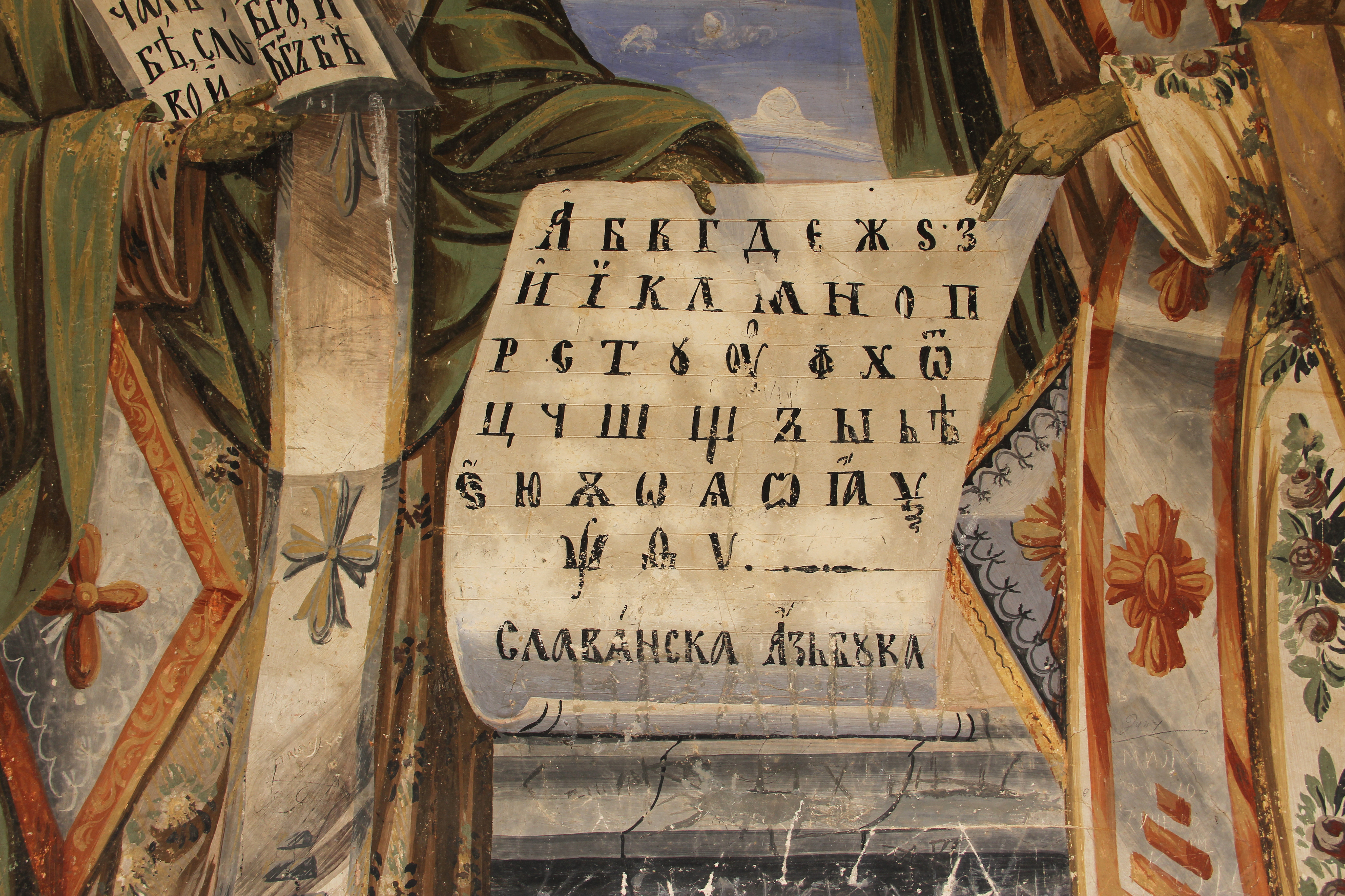 Detail of the fresco of Saints Cyril and Methodius holding a scroll with the Cyrillic script in the Monastery of Saint Jovan Bigorski, Macedonia.